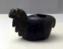 Inca zoomorphic sculpture in the Museum of the Americas, Madrid. Item 8644. Cuzco department, Peru, 1400-1532 AD.